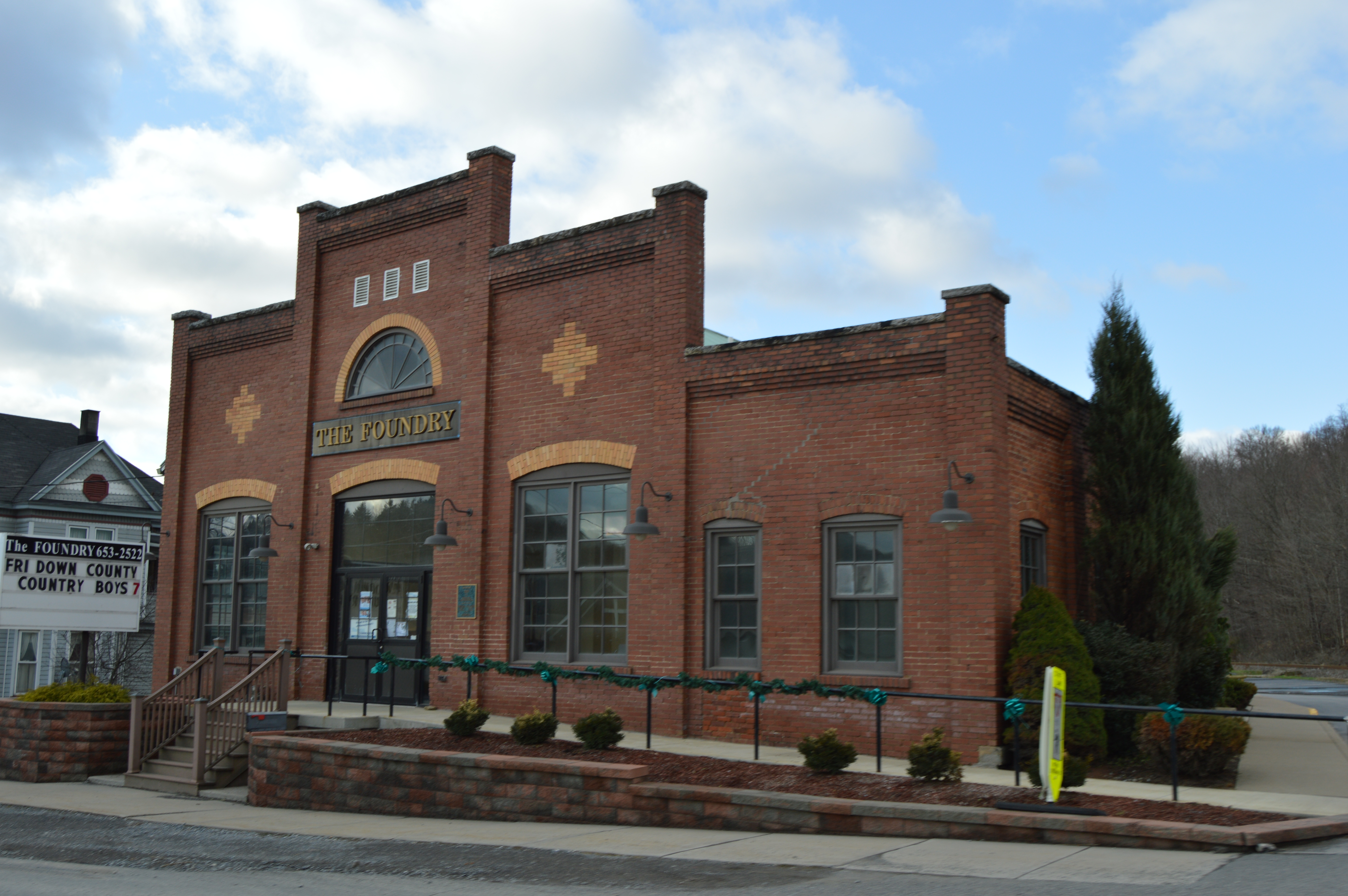 Front and western side of the Herpel Brothers Foundry and Machine Shop, located at 45 W. Main Street (U.S. Route 322) in Reynoldsville, Pennsylvania, United States. Built in 1905, it is listed on the National Register of Historic Places.